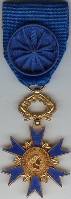 Ordre national du Mérite (National Order of Merit), Officier's insignia (France)